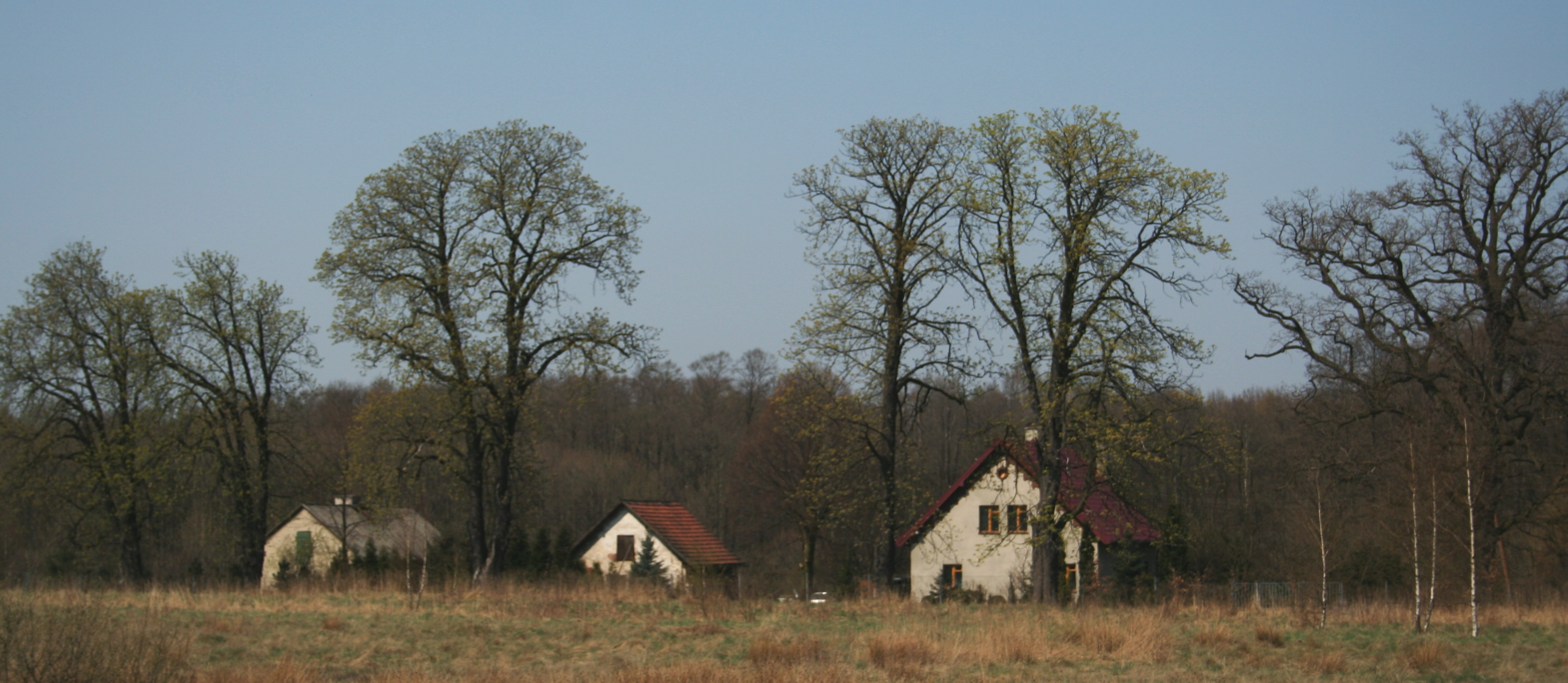 former folwark in Mikołów, Poland